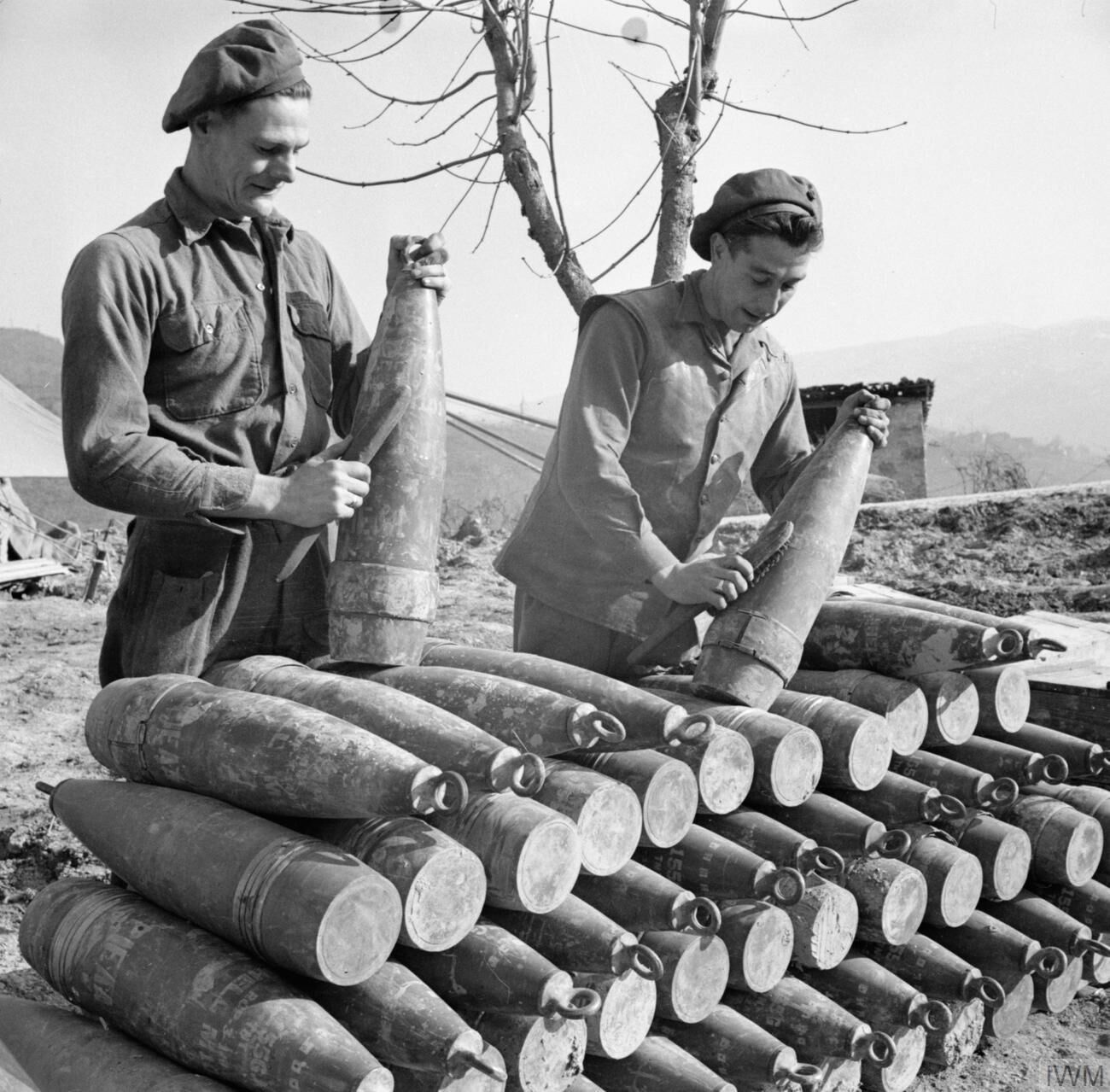 Gunners W D Lewis and F J Hall of 33/61 Heavy Regiment, Royal Artillery, at Vergato, Italy, cleaning mud from shells for an American-built 155mm 'Long Tom' gun.